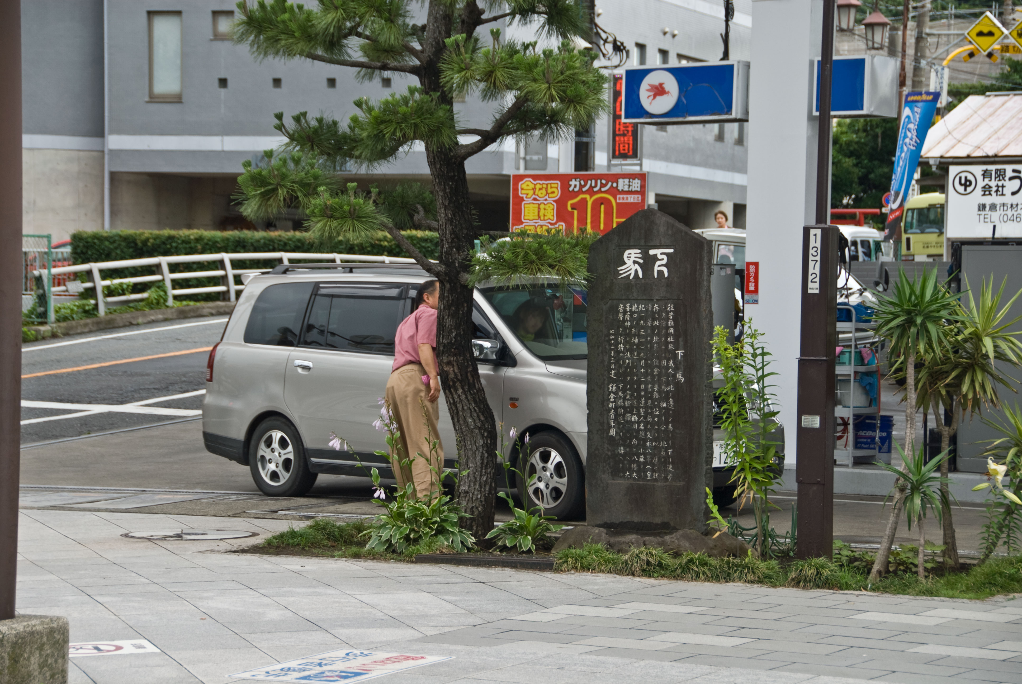 A stele erected in the 1920' in Geba, Kamakura, describing the place's past